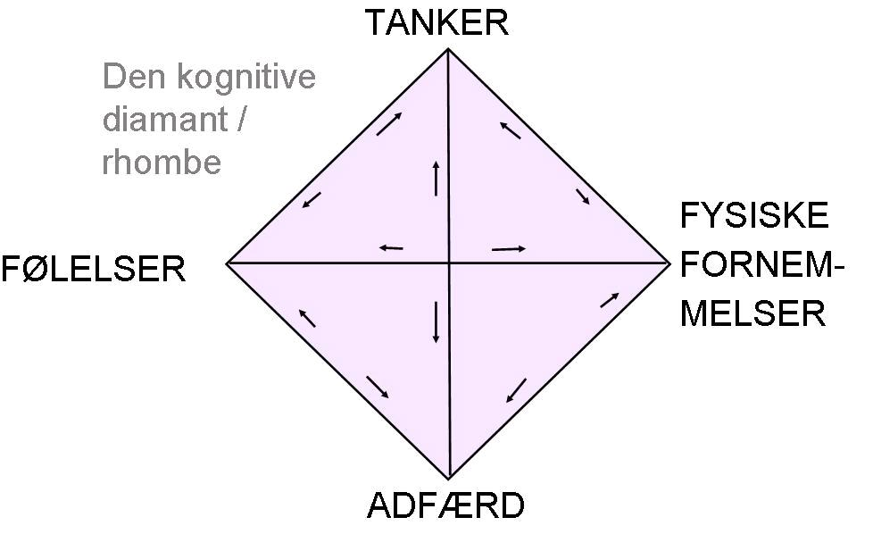 Den kognitive diamant